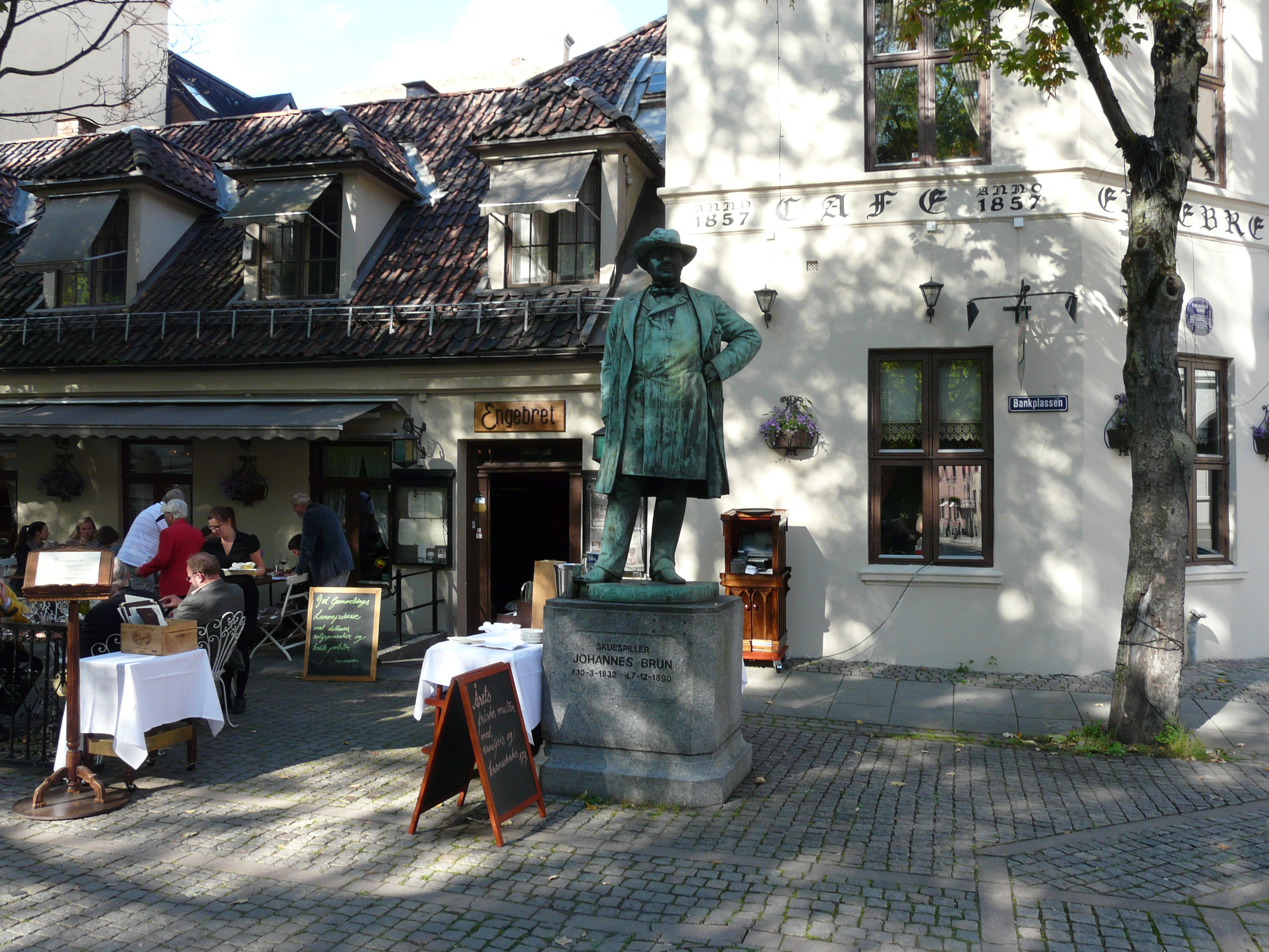 Statue of Johannes Brun on the 1st of September 2017 at Cafe Engebret, which was built in 1857. Oslo.